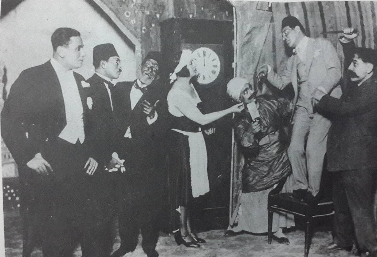 A side of one of Naguib el-Rihani's franco-arab plays.